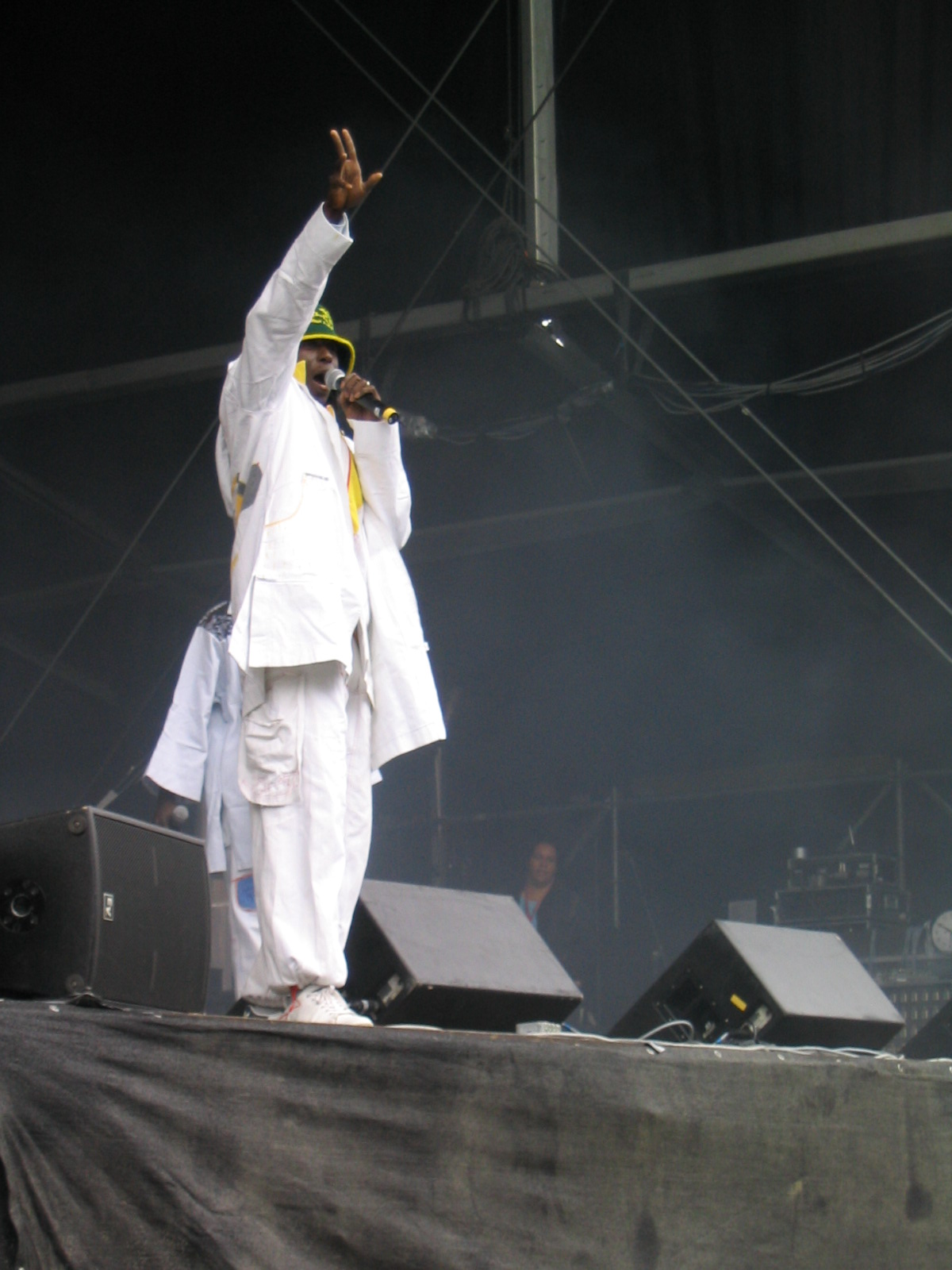 Darra J at the Berlin 05 festival